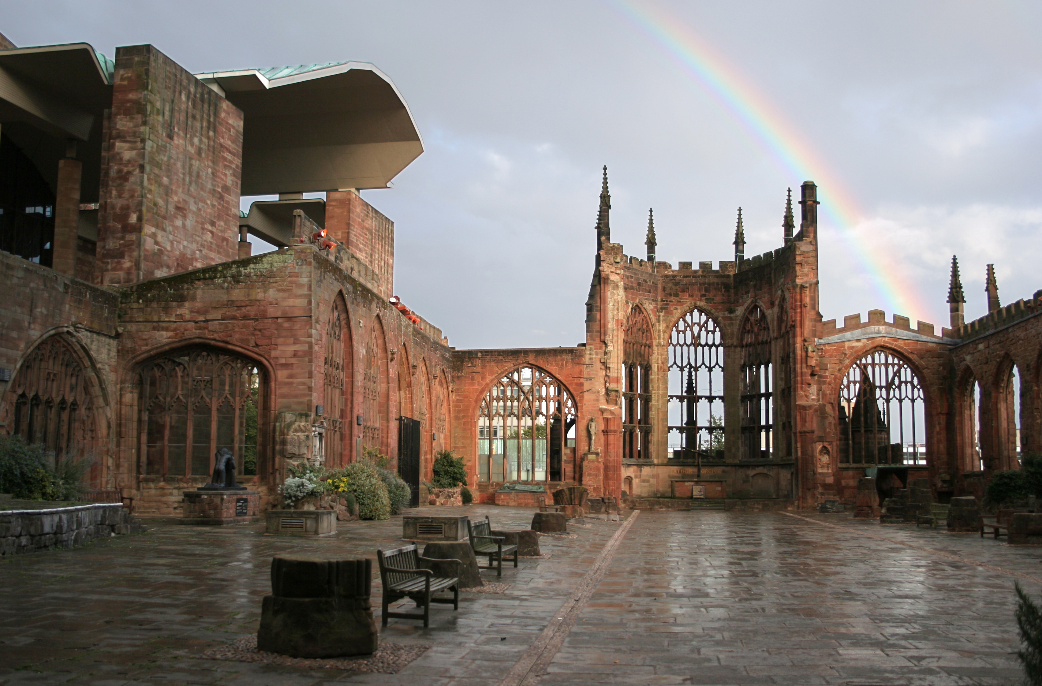 Coventry's old Cathedral ruins with rainbow.